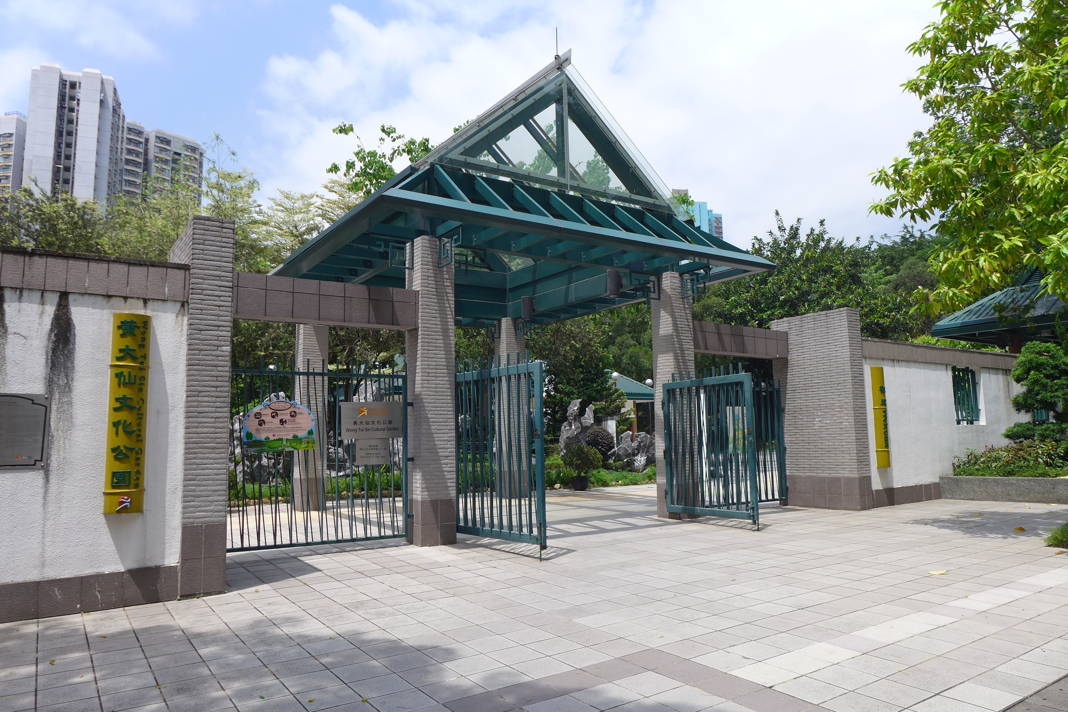 Wong Tai Sin Culture Park Entrance